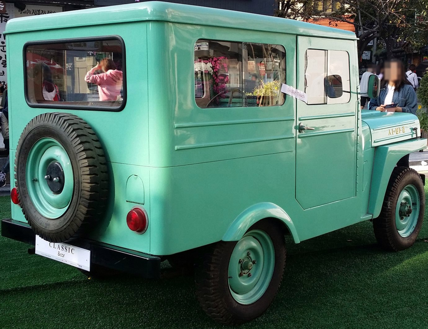 Gukje Shibal